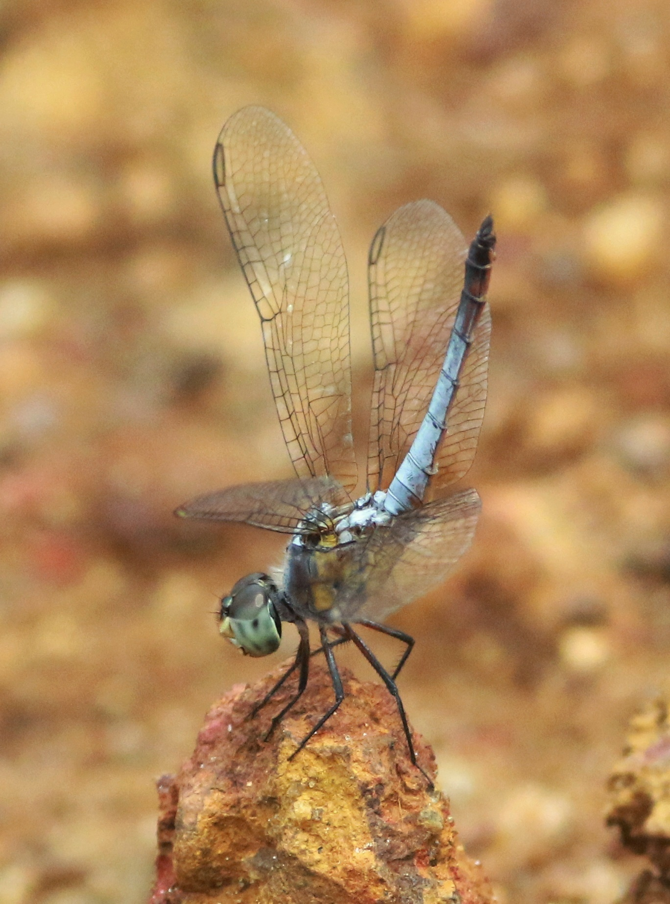 Brachydiplax chalybea,Rufous backed marsh Hawk